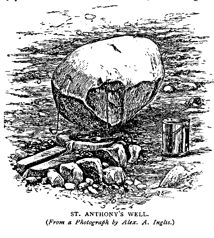 St. Anthony's Well